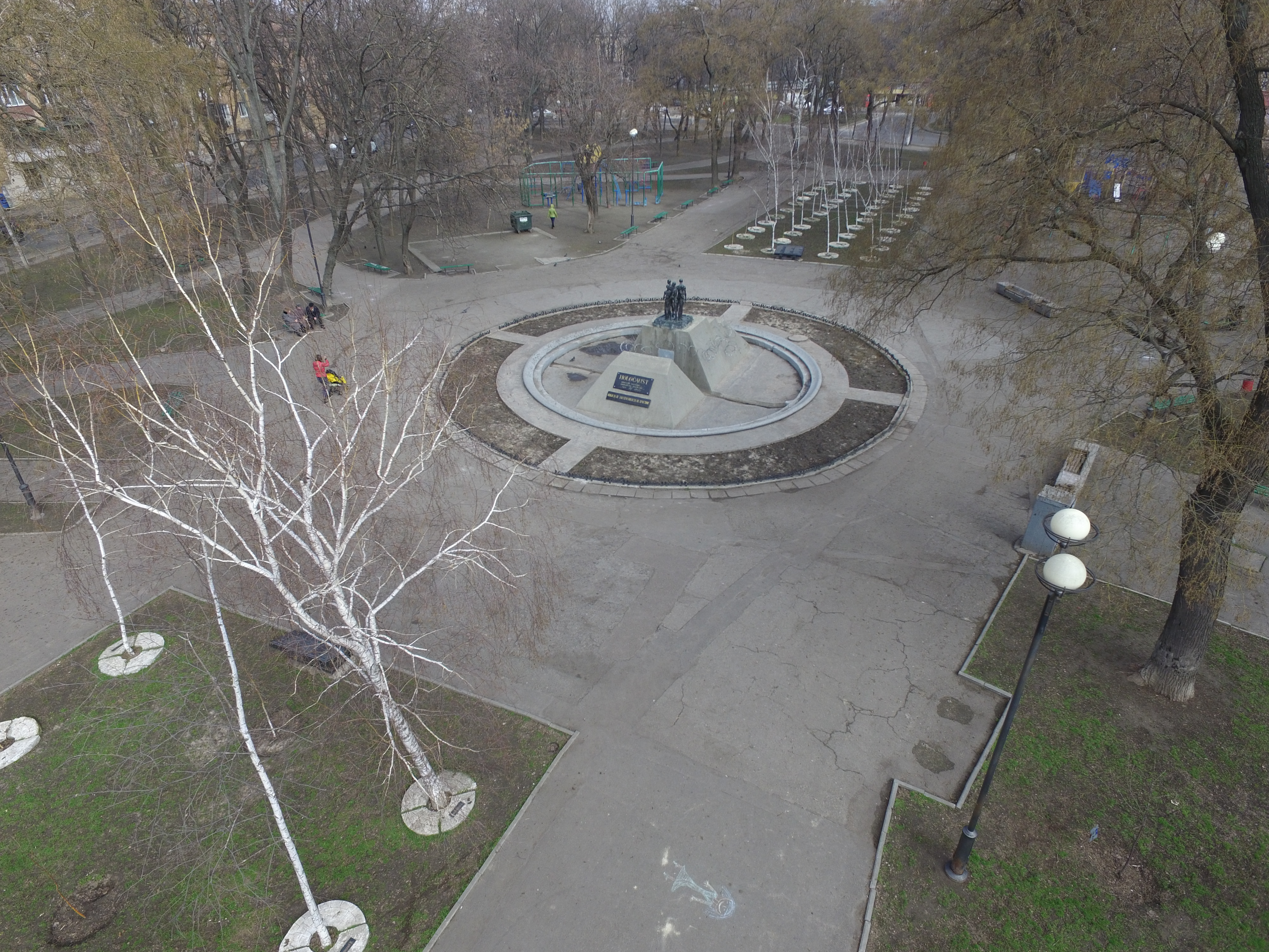 Holocaust Memorial in Odessa aerial view